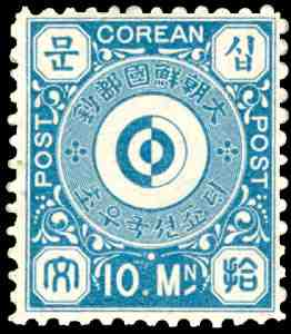 10 mun (문/文) postage stamp from the Kingdom of Joseon (Korea)